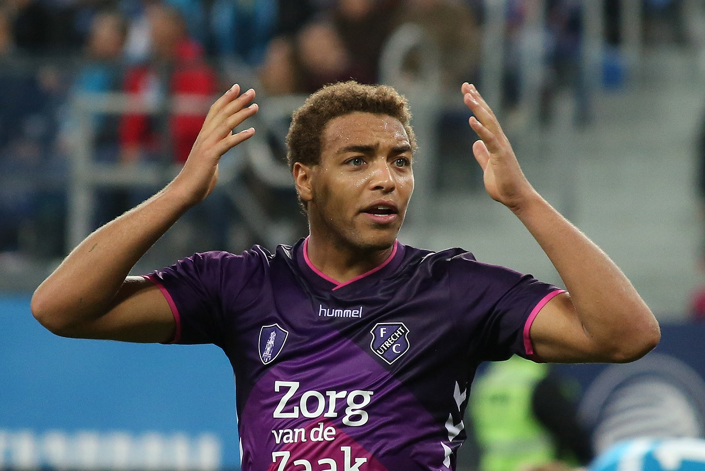 Cyriel Dessers with FC Utrecht in a UEFA Europa League game against FC Zenit Saint Petersburg.